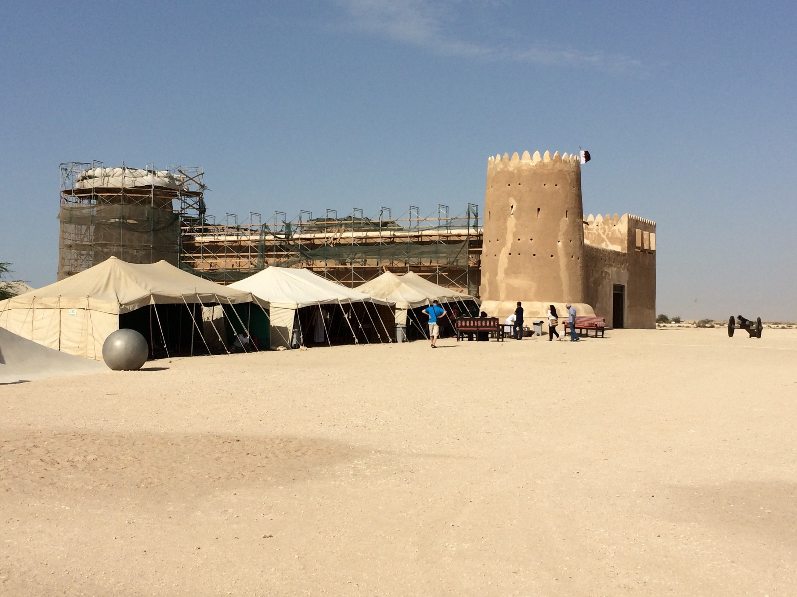 Renovation/restoration activities in 2015 at Zubarah fort, northern Qatar. In the tents there are facilities for tourists (foods, drinks, souvenirs etc.).